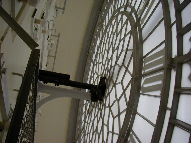 Rear of a clock face The view from the other side is rather more famous. This is the rear of the west facing clock faces on the clock tower at the Palace of Westminster. Numbers 8 (VIII) & 9 (IX) are nearest the camera. Going to the middle of the clock face is the mechanism to move the hands. On the wall on the left can be seen the bulbs to provide the illumination.